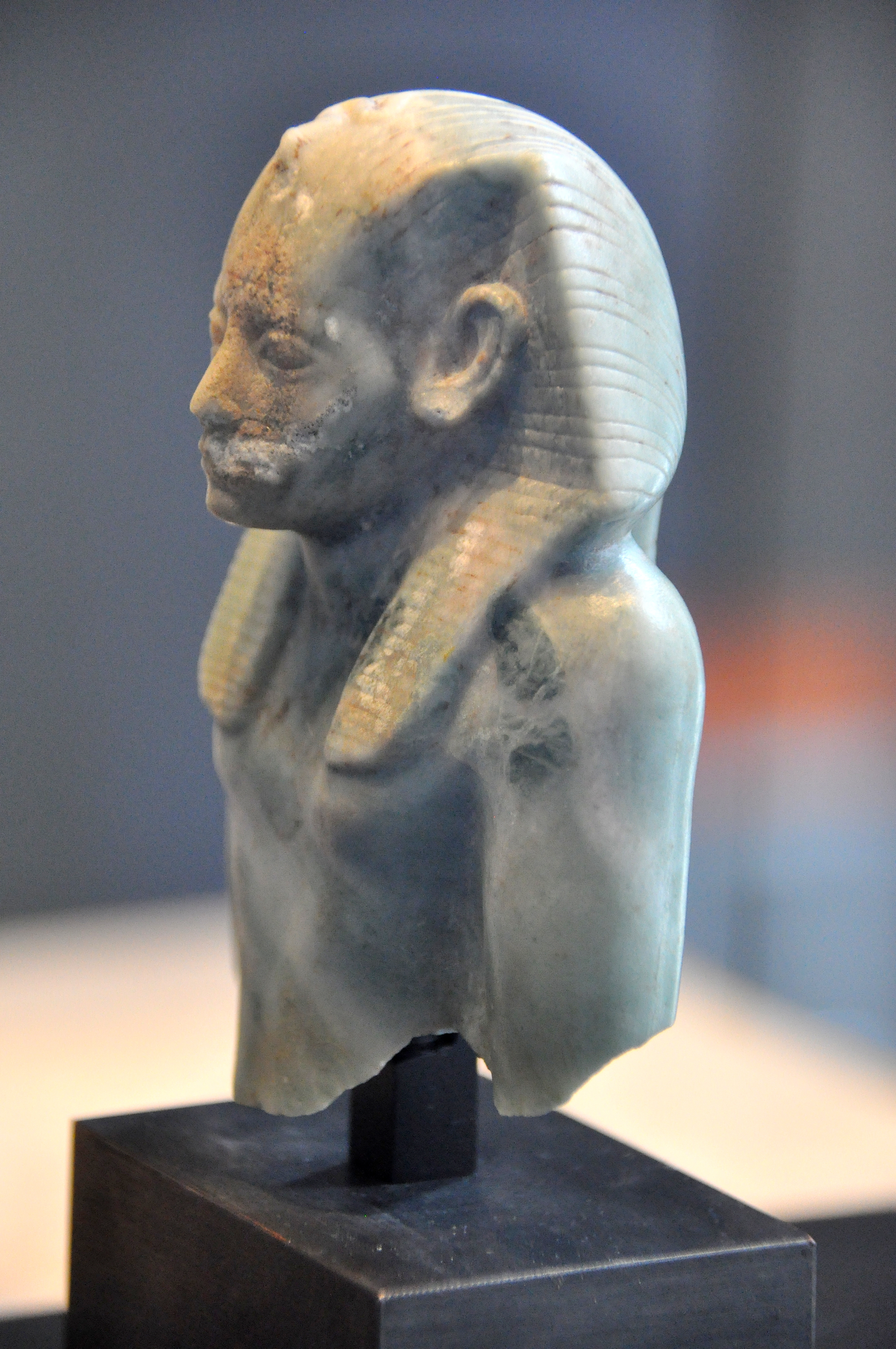 Upper part of a statue of the Egyptian pharaoh Amenemhat III. Middle Kingdom, 12th Dynasty, c. 1800 BC. Probably from Fayum, in modern-day Egypt. Opaque calcite. State Museum of Egyptian Art, Munich, Germany.